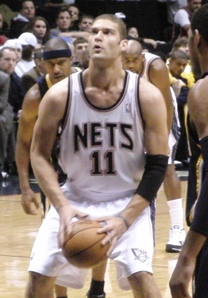 Photo of Brook Lopez of the New Jersey Nets at the foul line.